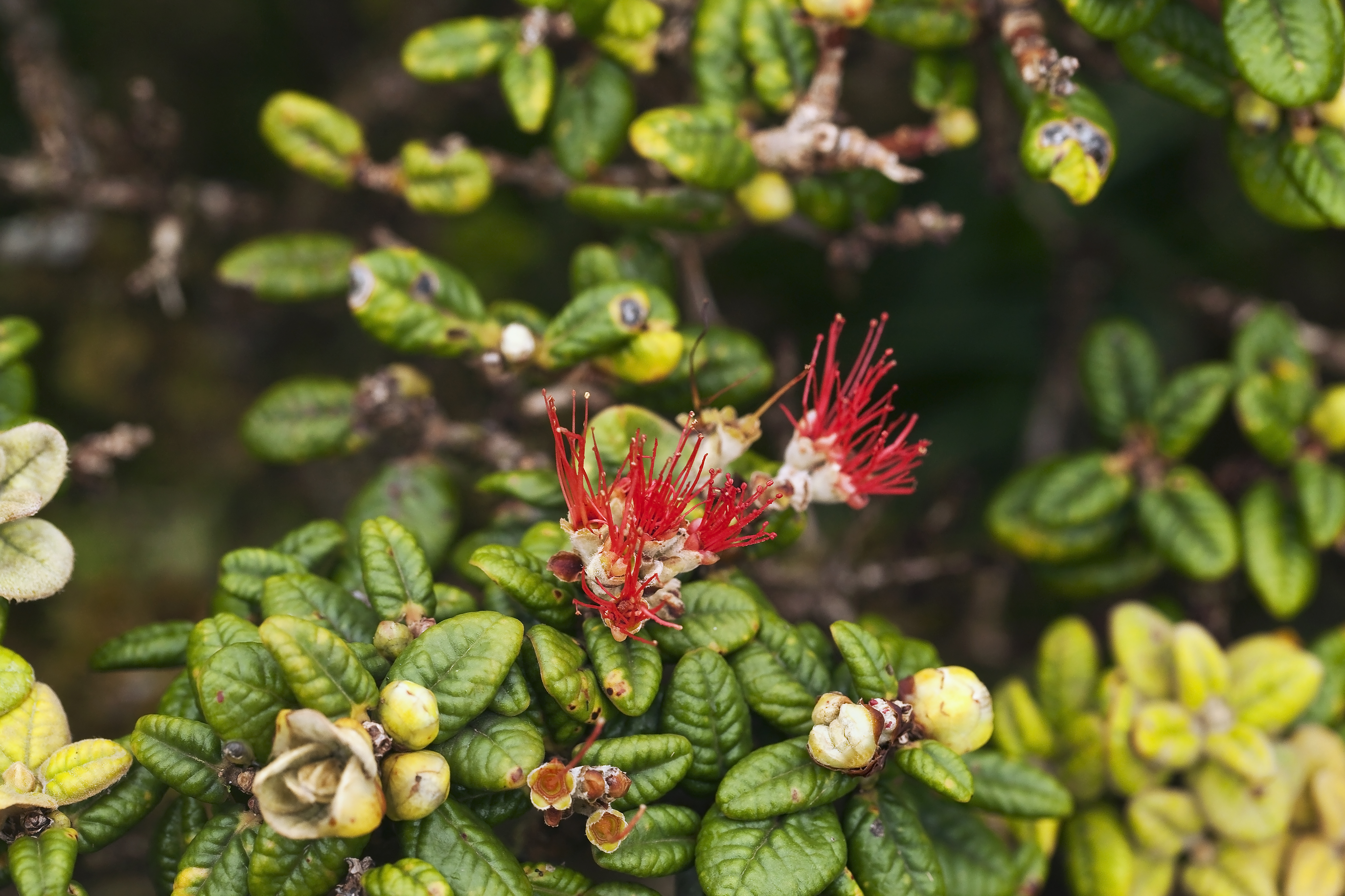 Metrosideros rugosa (lehua papa). In an open spot near the top of Poamoho Trail, Oahu.